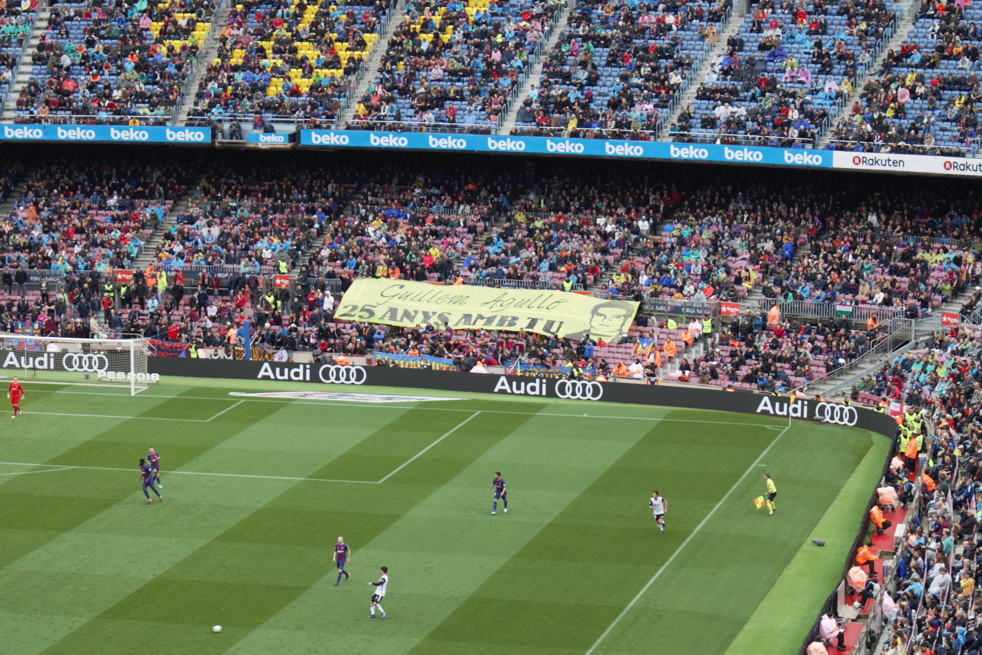 Big banner with the motto "Guillem Agulló, 25 years with you". Banner showed in the Camp Nou during the match Barça against València. Final result: Barça 2 - 1 València. Matchday 32 of La lliga. Camp Nou, saturday 14 april 2018.